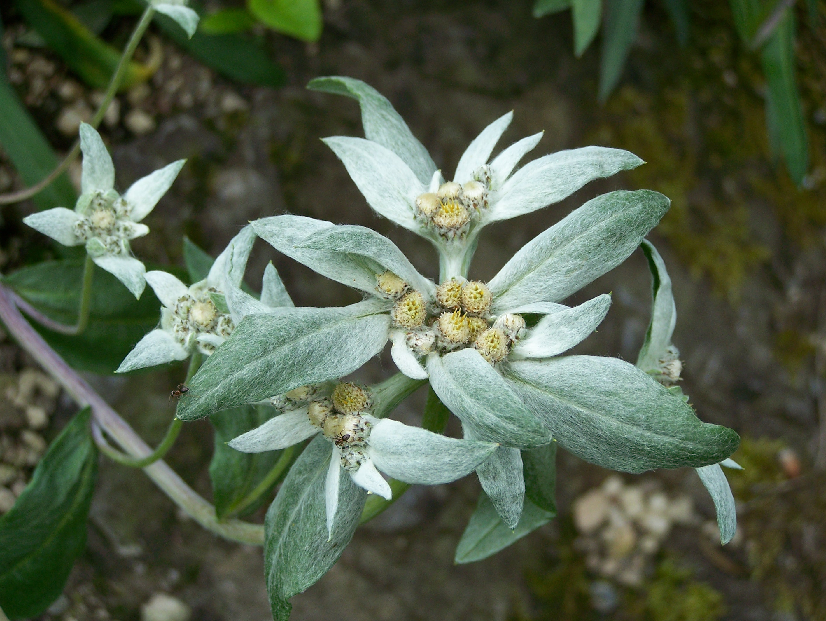 Species: Leontopodium jacotianum Beauverd Common name: Edelweiss. Synonyms: Leontopodium alpinum L. var. alpinum sensu Hook.f. Leontopodium jacotianum P. Beauv. var. paradoxum (Drumm.) P. Beauv. Leontopodium paradoxum Drumm. Distribution: Pakistan, India, Nepal, Bhutan, Xizang, Mynamar and China.